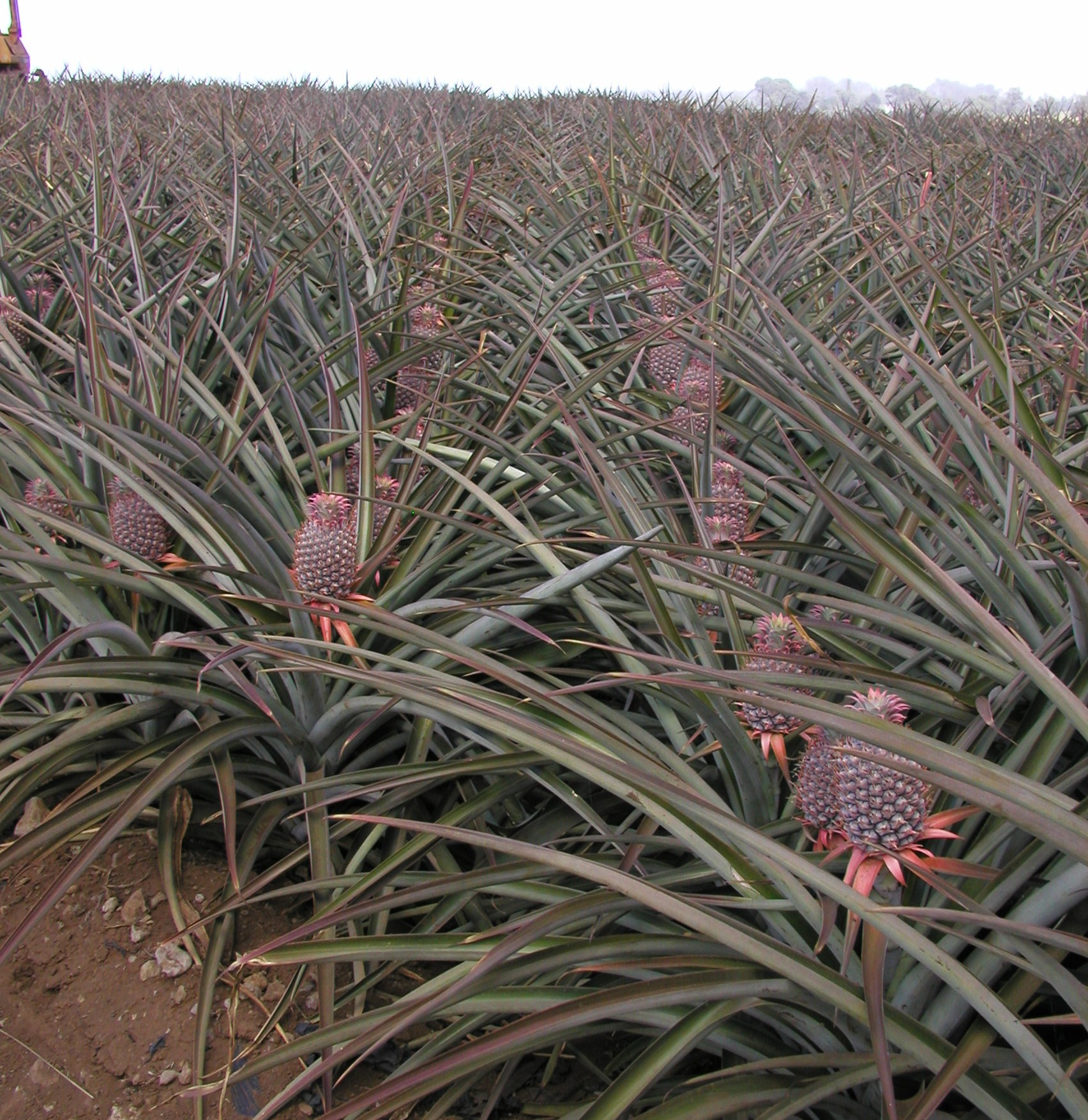 An upcountry pineapple field in Maui.